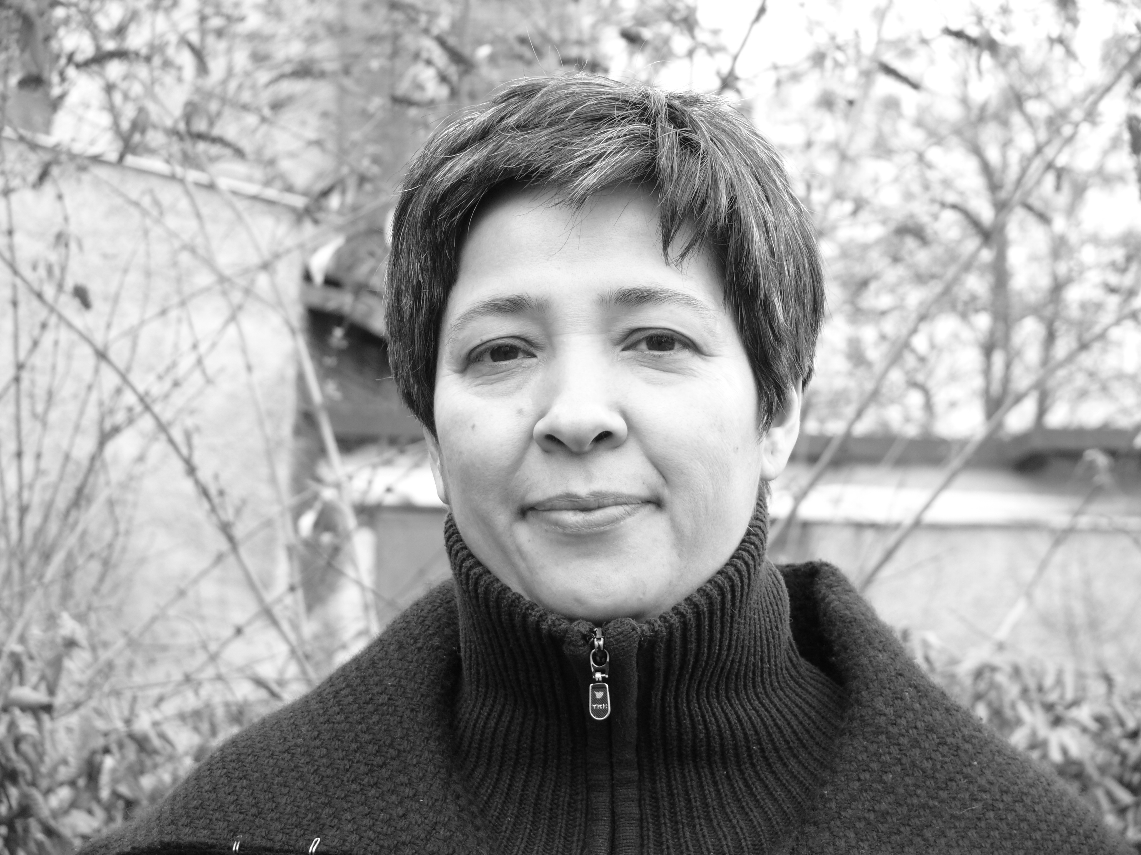 Seyran Ateş